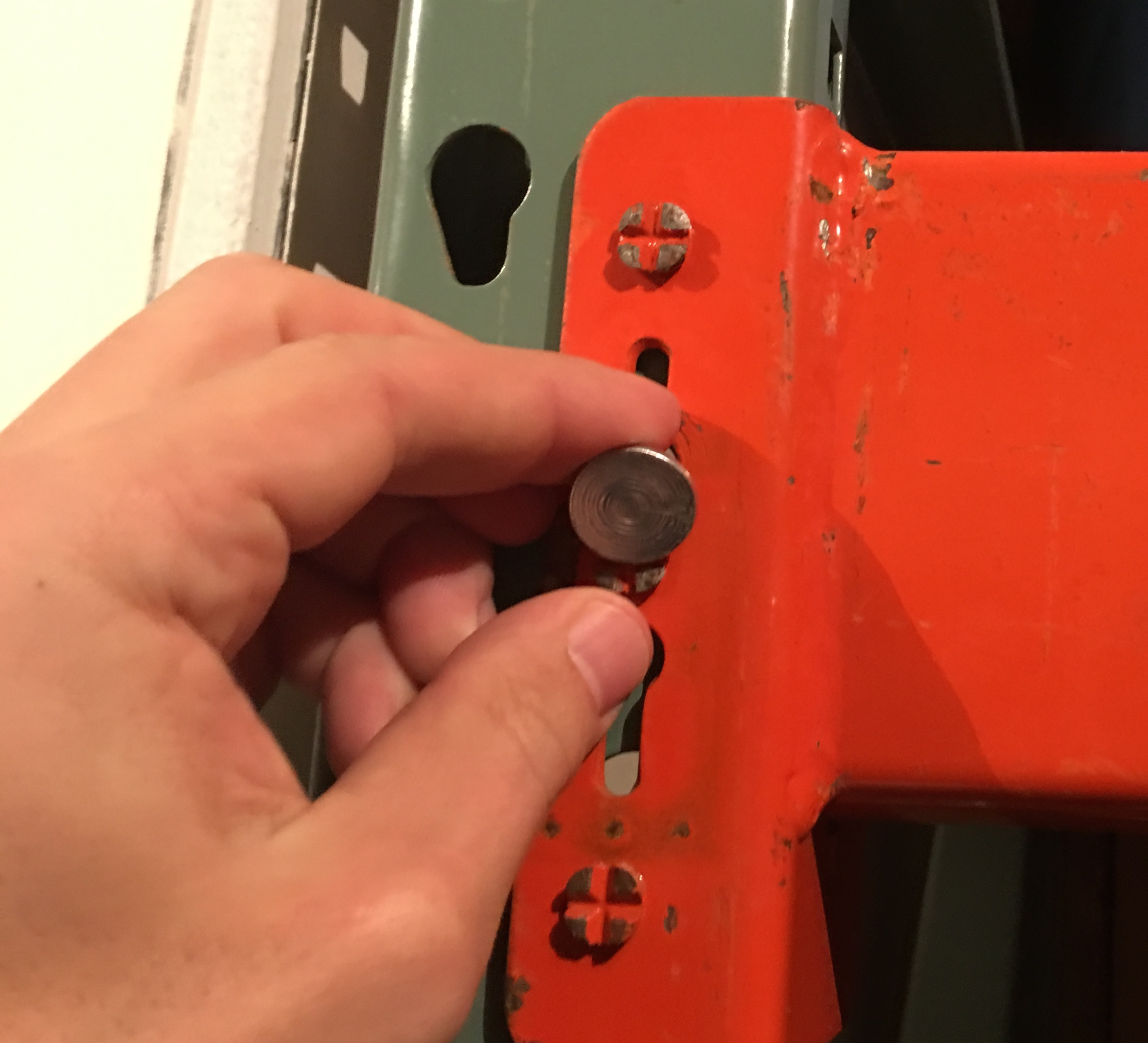 Pallet Rack Safety Bolt installation